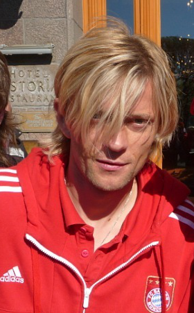 Anatoly Tymostchuk in Saint-Peterburg, 18 May 2011. Before the friendly game with Zenit Saint-Petersburg, near Astoria hotel, during the brief meeting with a fans.